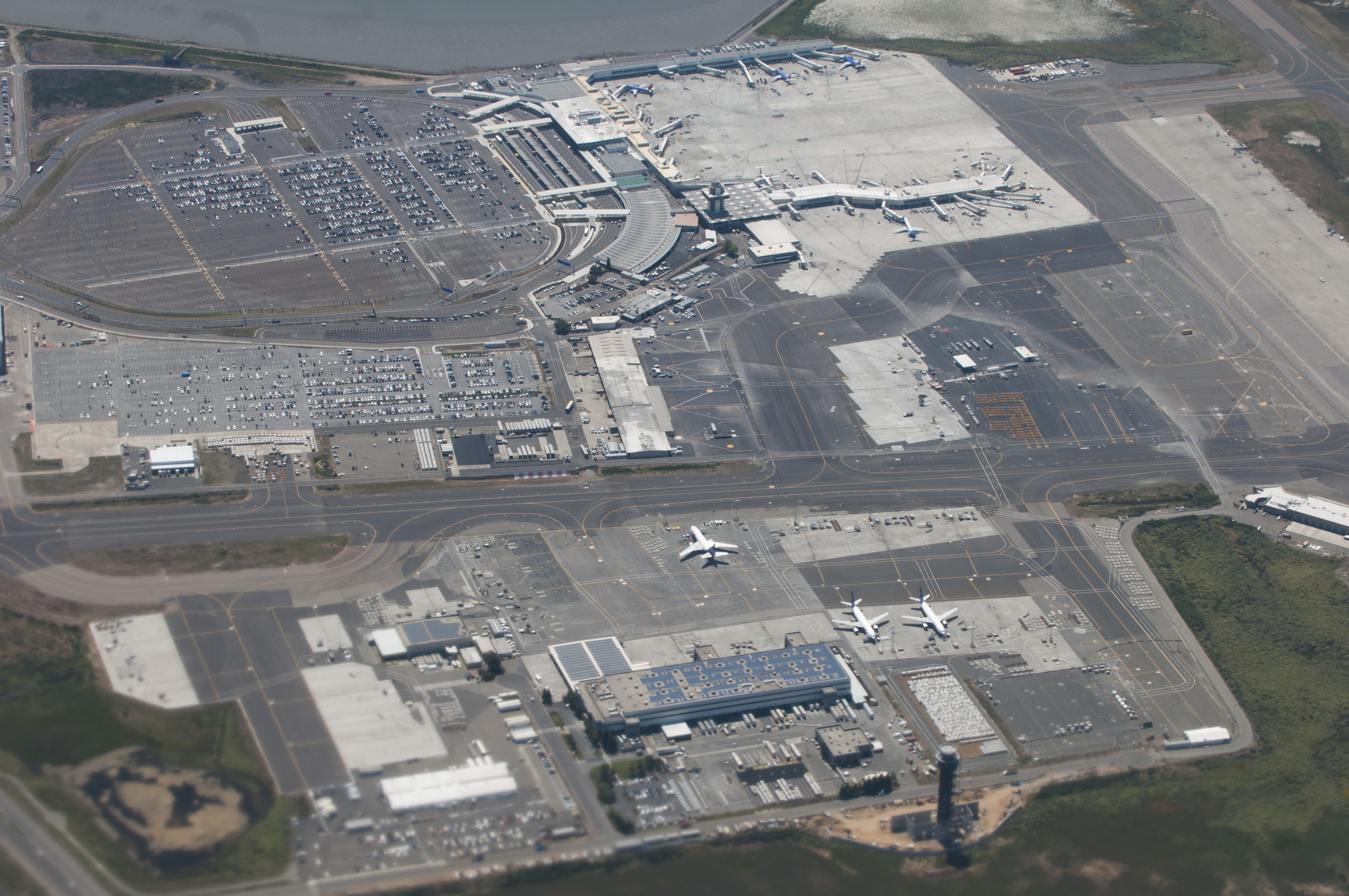 From a flight on its way from SFO to Boston. Some blurring in the lower part of the frame due to warping of the window.